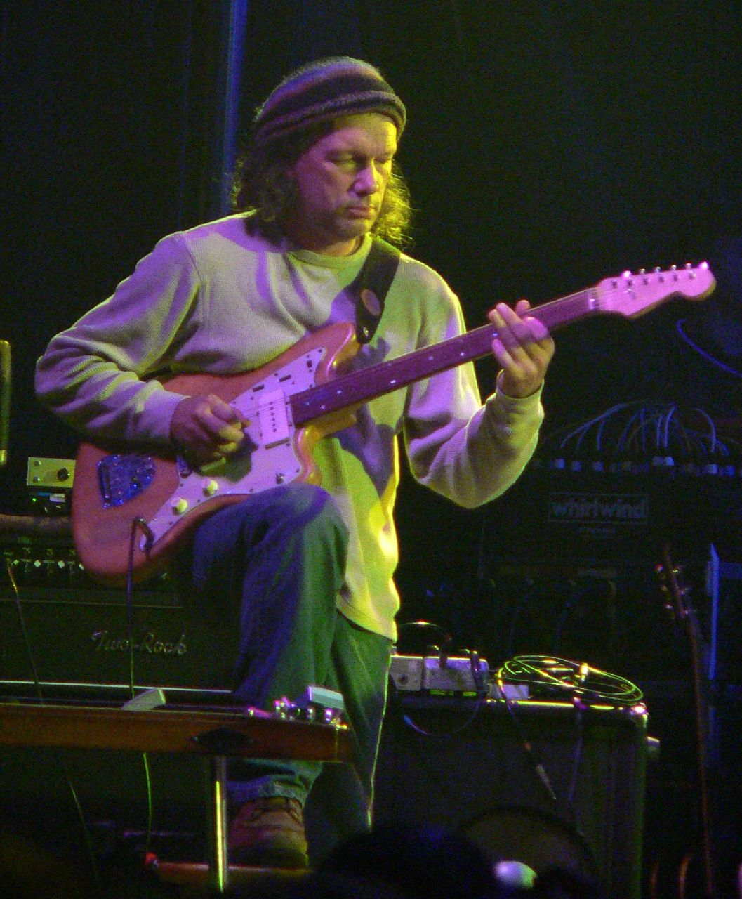 Picture of Steve Kimock performing with the Rhythm Devils at the Gathering of the Vibes on August 19, 2006 in Mariaville, NY.